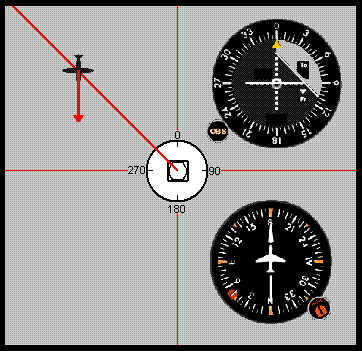 Graphical depiction of how a VOR needle shades the headings necessary to center the needle.